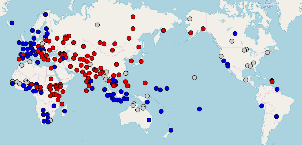 names like cha names like tea other names